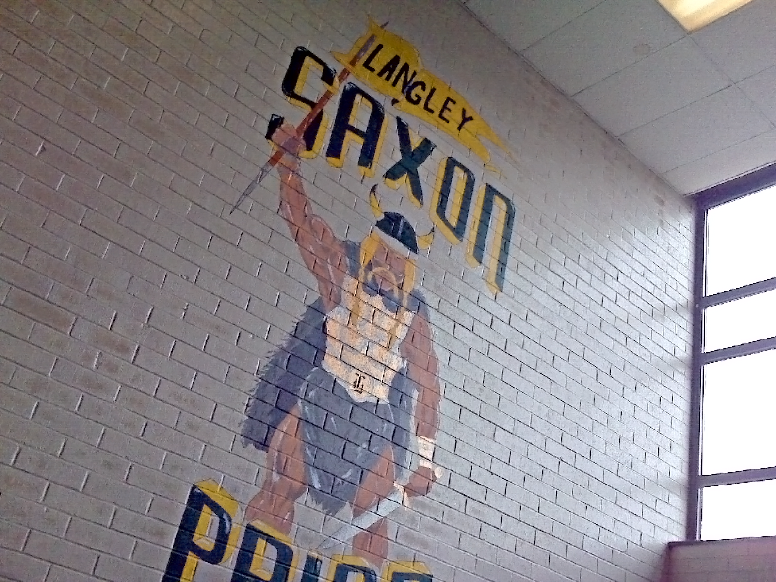 Saxon Pride License on Flickr (2011-12-17): CC-BY-2.0